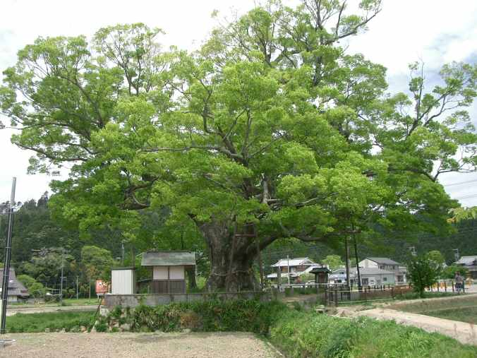 Noma Keyaki, an about-1000-year-old Zelkova serrata